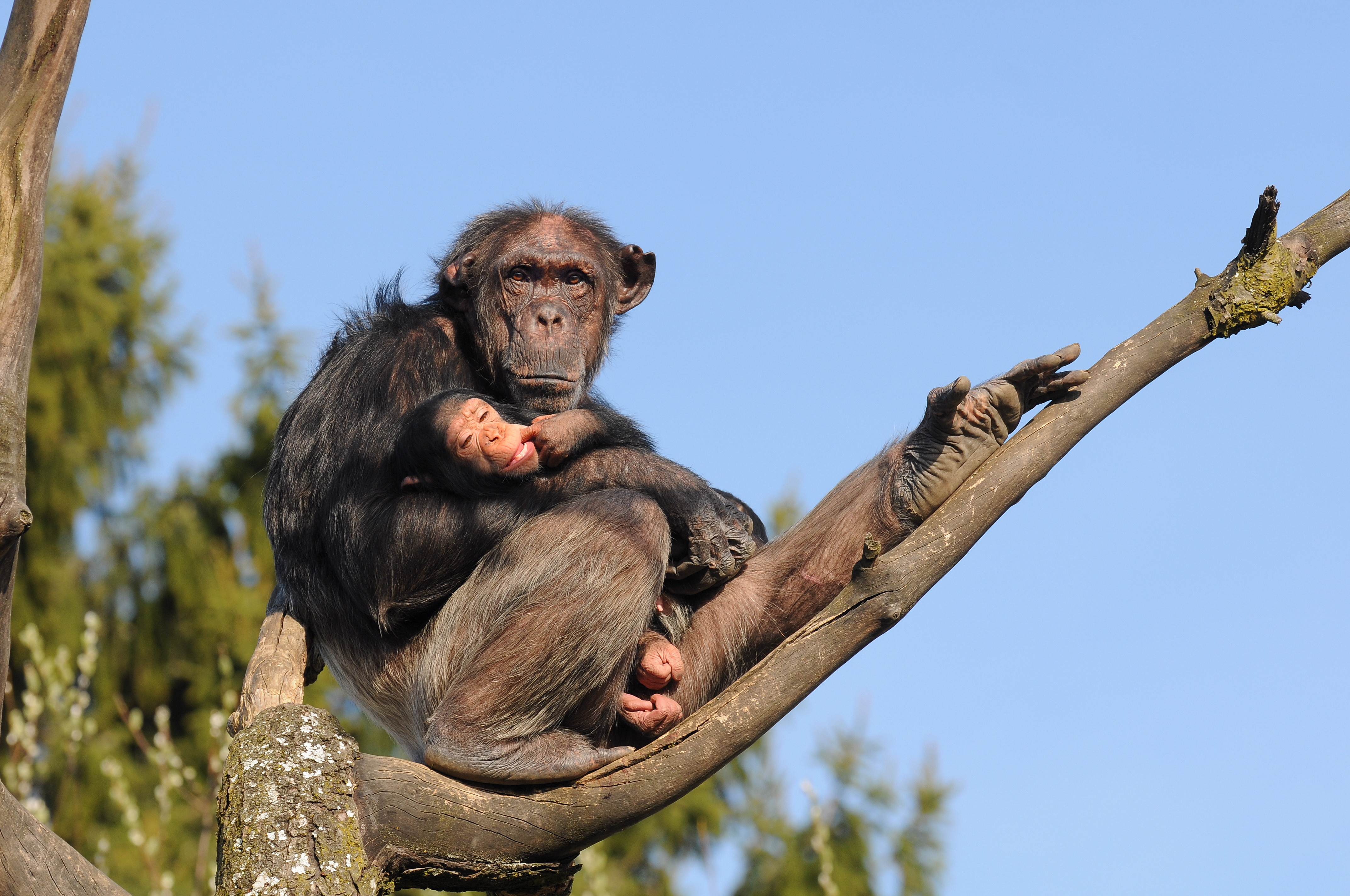 The Common Chimpanzee (Pan troglodytes) is a species of primate in the family of apes (Hominidae). Together with the bonobo (pygmy chimpanzee), they form the category of chimpanzees (Pan).